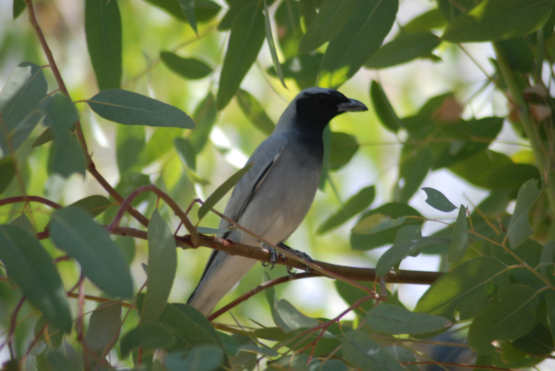 A black-faced cuckooshrike at Alice Springs Desert Park, Northern Territory, Australia.